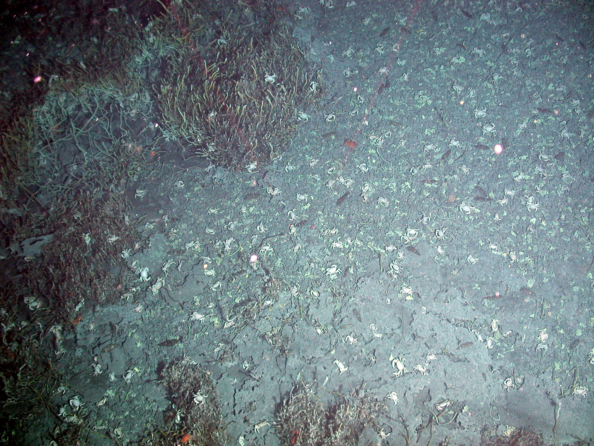 Flatfish and crabs on top of a sulfur crust on the Nikko Seamount. The edge of the crust is covered by tube worms.